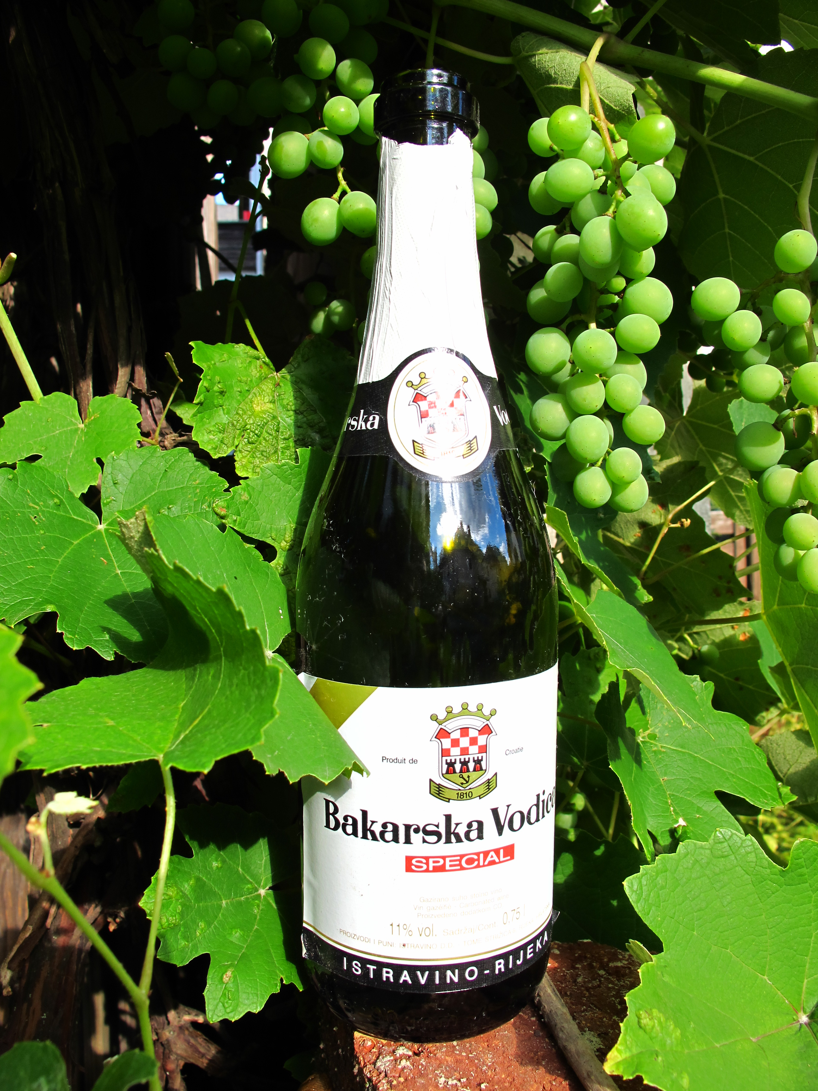 Bottle Bakarska Vodica, a brand of sparkling wine on the area of Bay of Bakar / Croatia / Adriatic Sea.